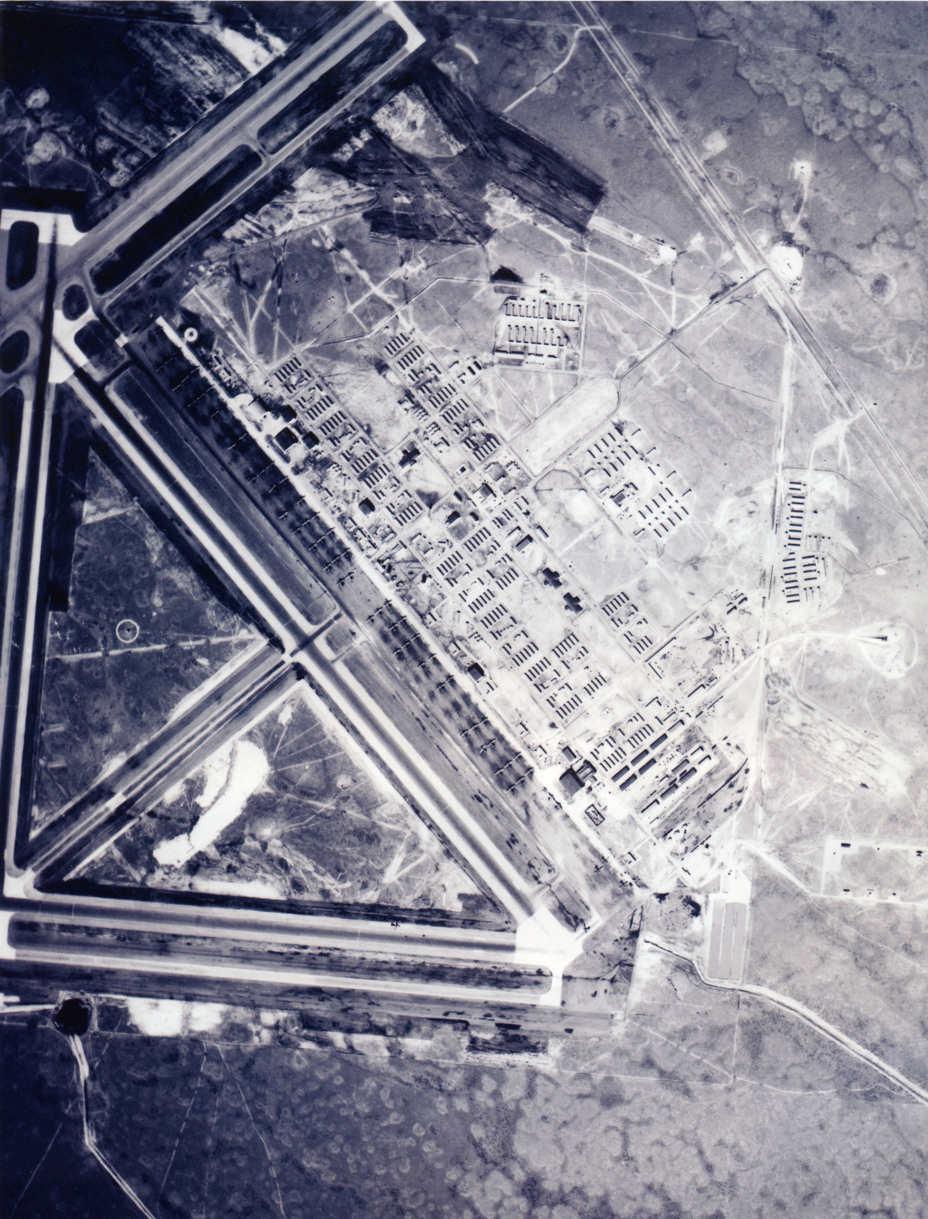 Aerial view of Hobbs Army Air Field circa 1943